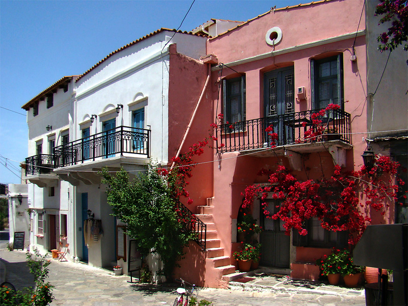 Chalkio, Naxos, Greece.